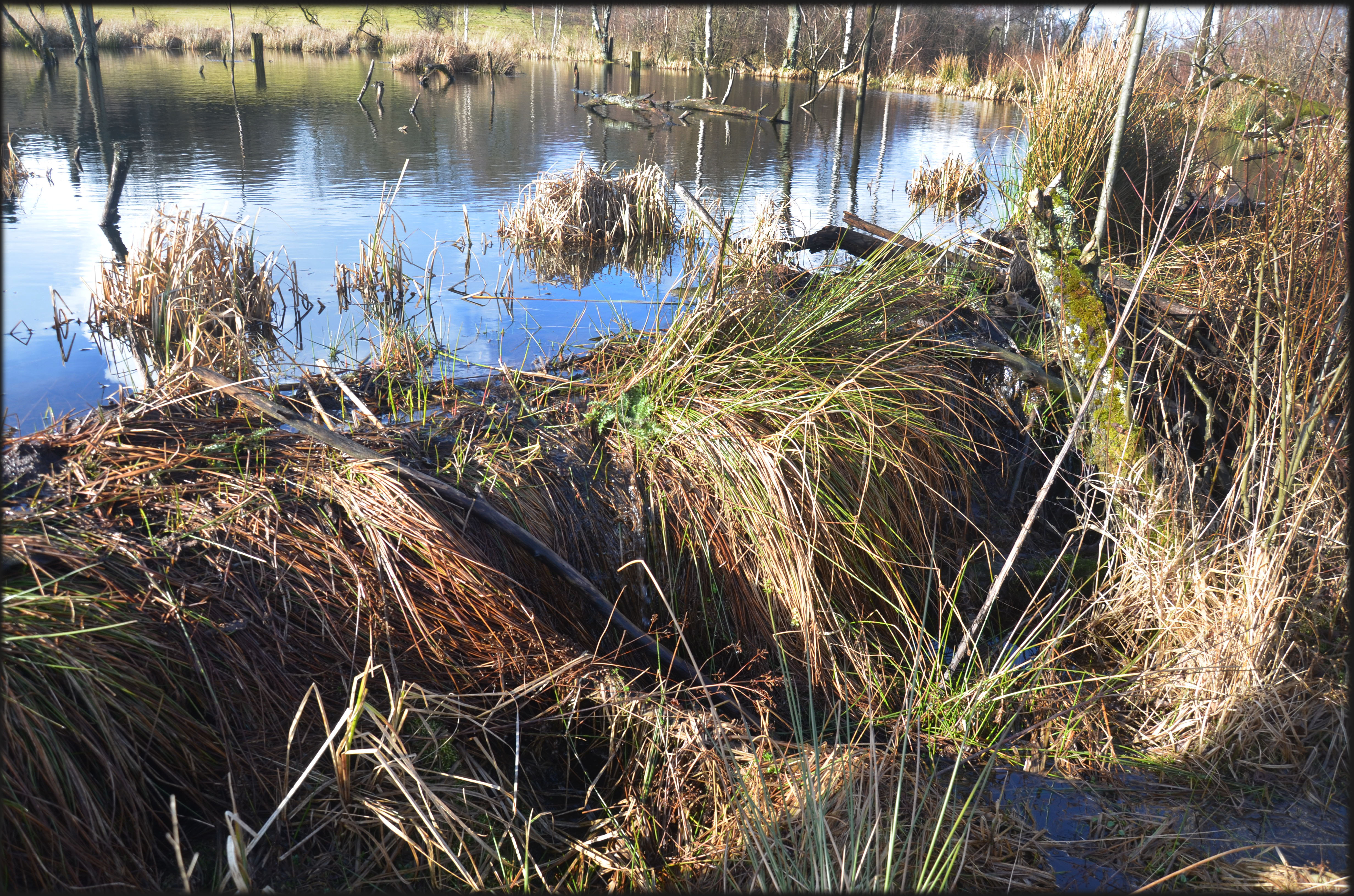 Dam of Castor fiber, in the French Ardennes, in a wetland with Blue molinies ( Molinia caerulea and birch.